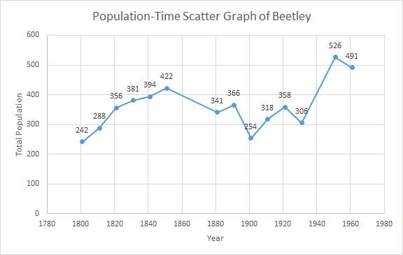 A graph showing the changes in population in Beetley, Norfolk, United Kingdom.